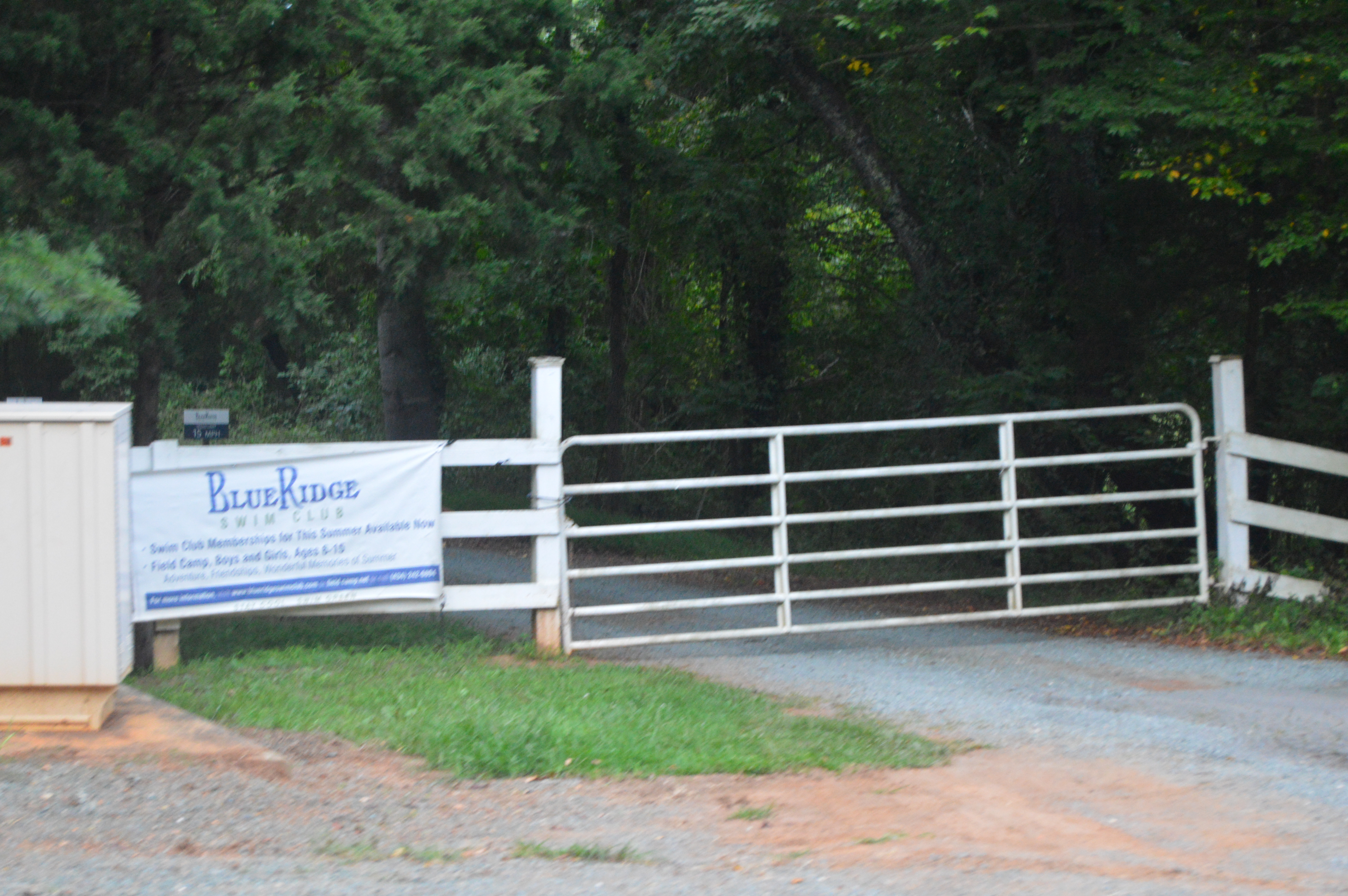 Driveway to the Blue Ridge Swim Club, located off Owensville Road northwest of Charlottesville in Albemarle County, Virginia, United States. The property is listed on the National Register of Historic Places.